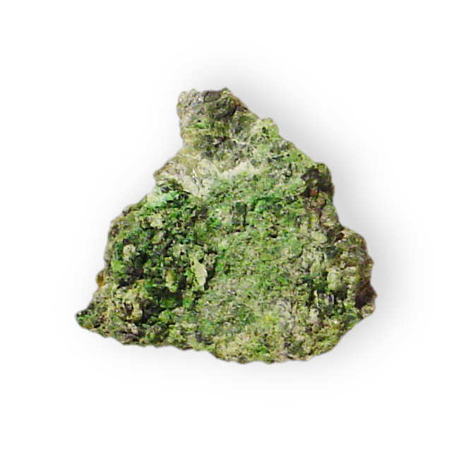 These mineral images are free to use how you wish.